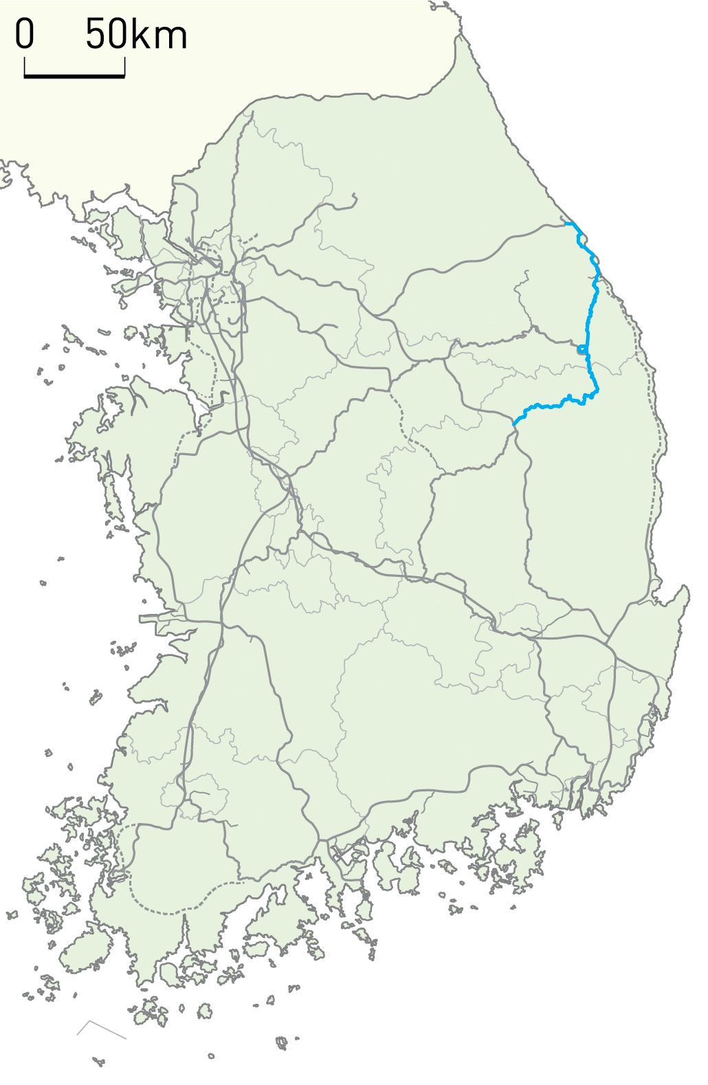 Korail Yeongdong Line Routemap